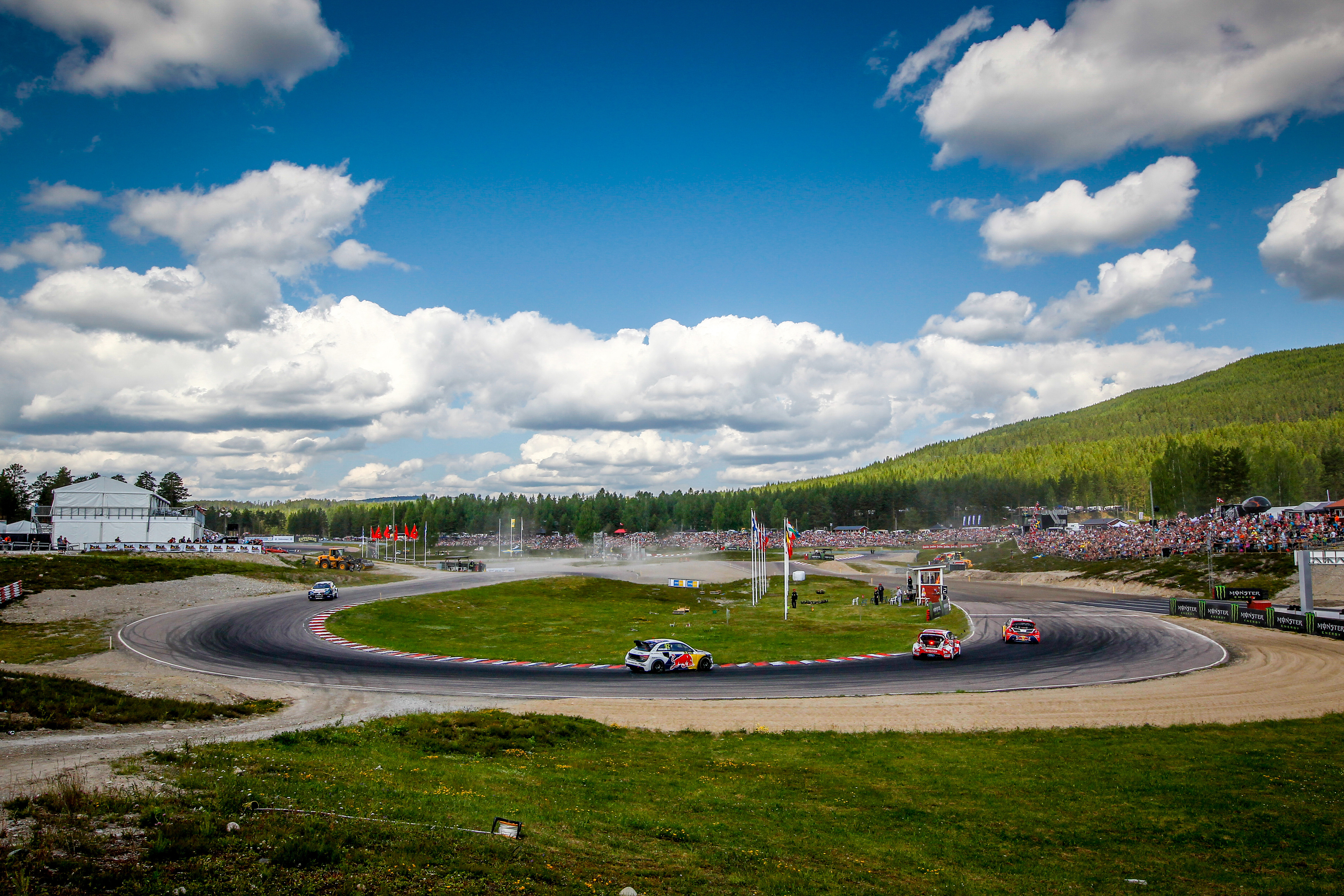 2015 FIA World Rallycross Championship / Round 06, Holjes, Sweden // 3-5 July 2015 // Worldwide Copyright: Colin McMaster/EKS/McKlein